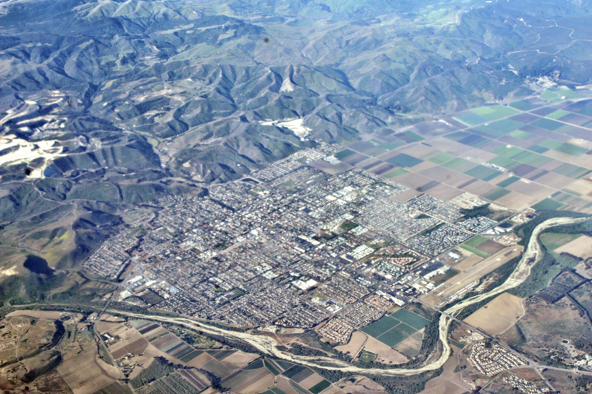 The city of Lompoq, california, near Vandenberg Air Force Base. The diatomaceous rock mine on the left is one of the larges on earth